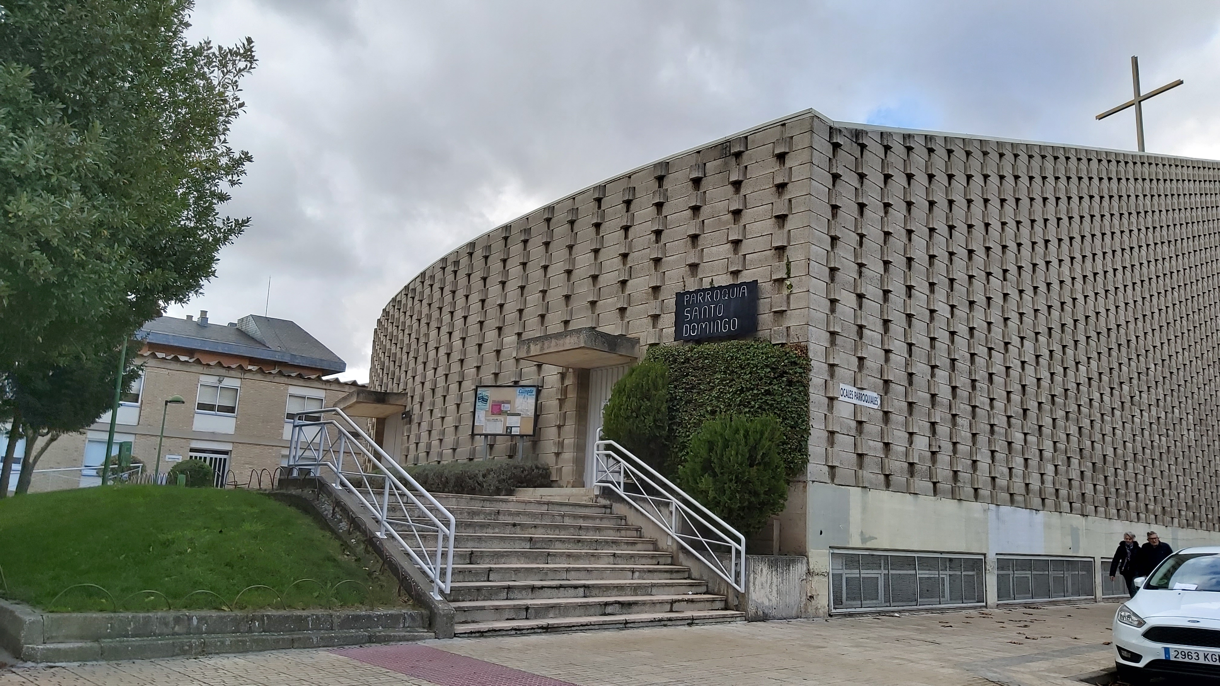 Photo of the parish of Santo Domingo de Guzmán in Burgos.